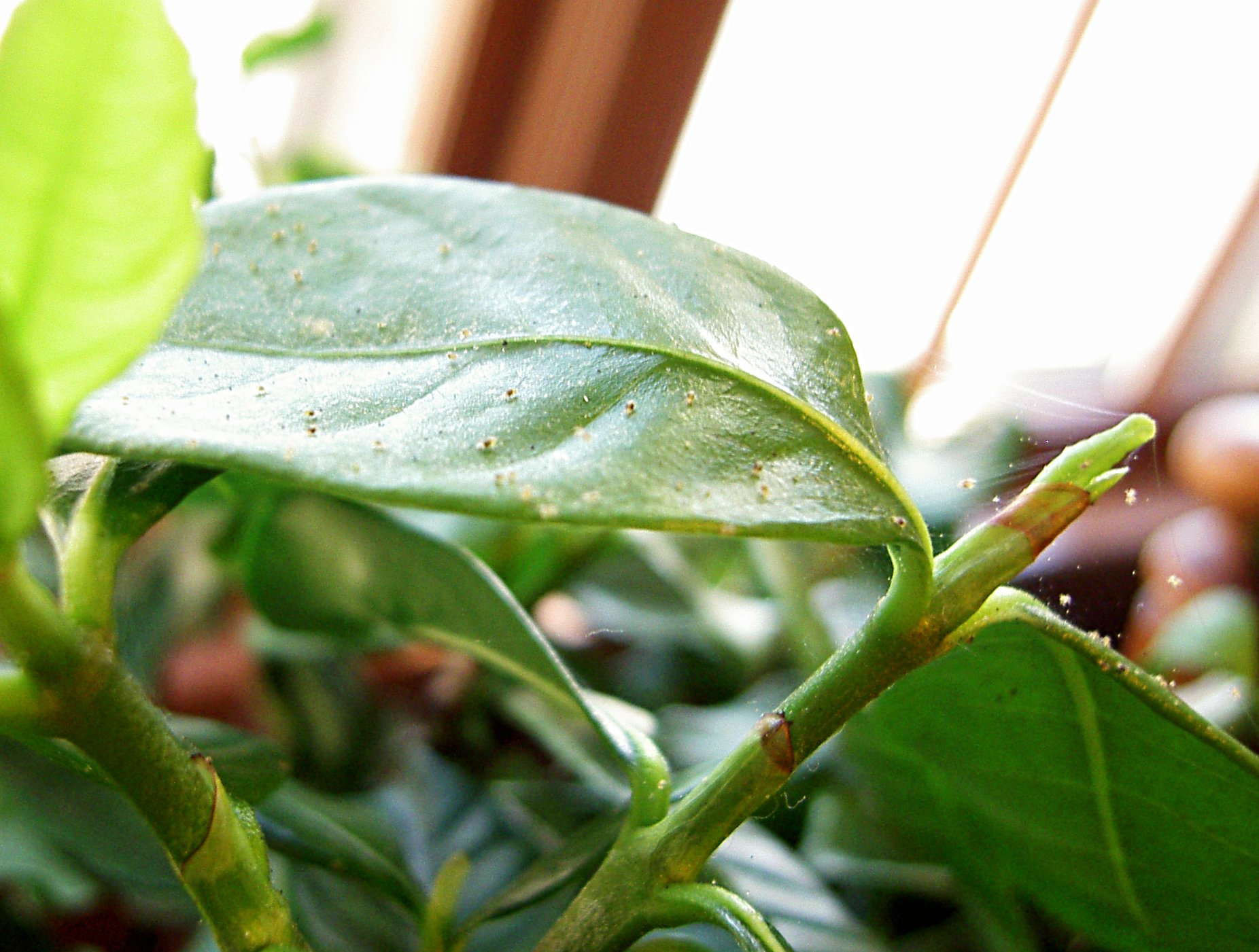 Spider mites (Tetranychus urticae) on a gardenia bush